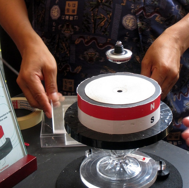 I love when you can forget about physics and just appreciate magical levitation